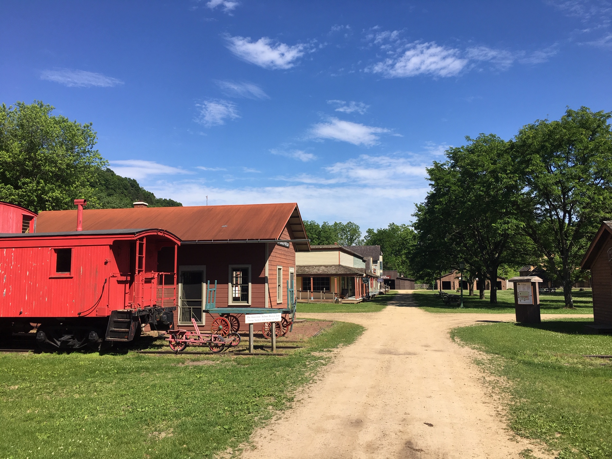 Stonefield Village street at Stonefield Historic Site, Cassville, Wisconsin in 2019.